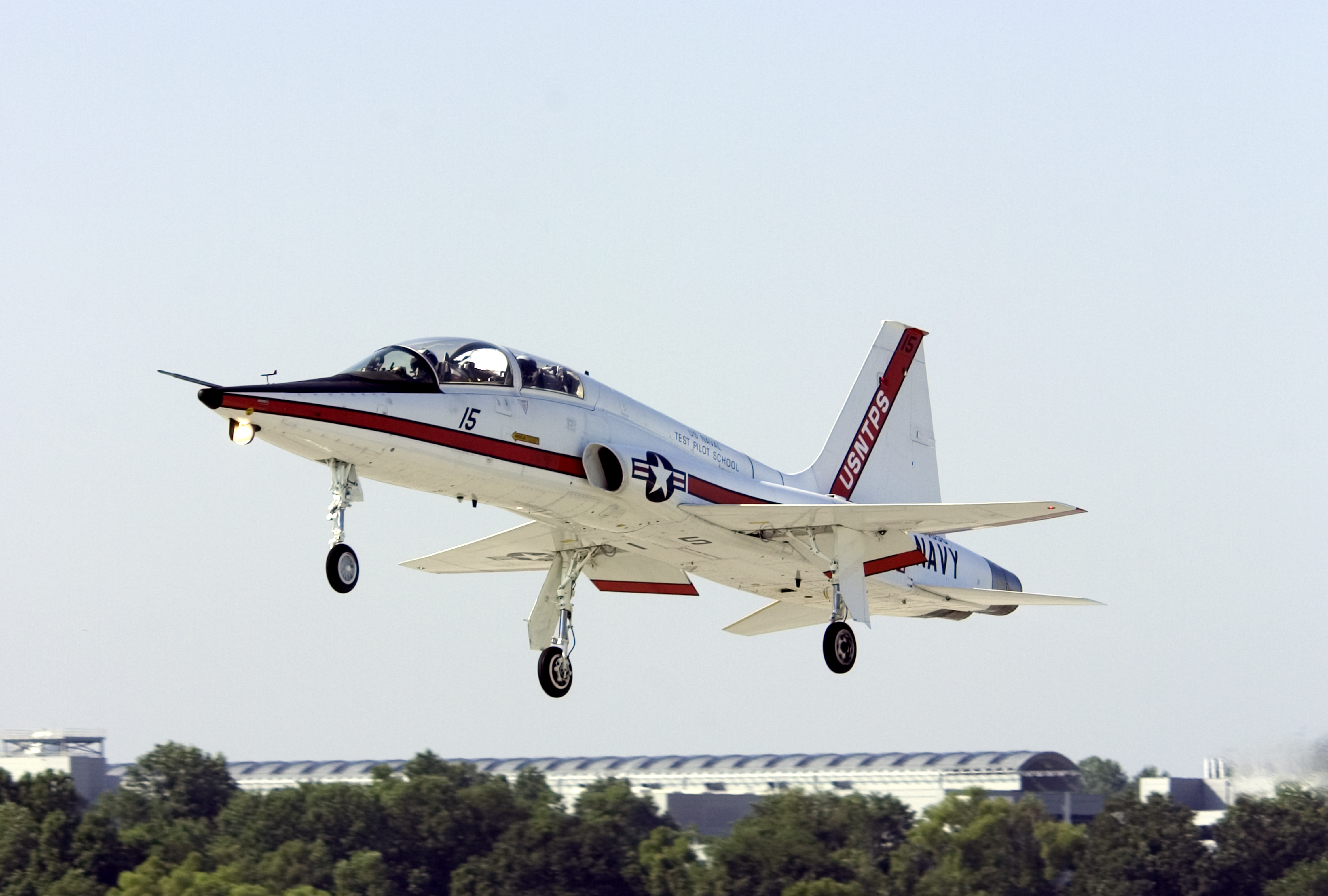 Patuxent River, Md. (Aug. 3, 2005) – A T-38A Talon, assigned to the U.S. Naval Test Pilot School, takes off for a training flight from Naval Air Station Patuxent River, Md. The United States Naval Test Pilot School (USNTPS) provides instruction to experienced pilots, flight officers, and engineers in the processes and techniques of aircraft and systems test and evaluation. The school investigates and develops new flight test techniques, publishes manuals for use of the aviation test community for standardization of flight test techniques and project reporting, and conducts special projects. USNTPS operates approximately 50 aircraft of 13 types. U.S. Navy photo by Photographer’s Mate 2nd Class Daniel J. McLain (RELEASED)